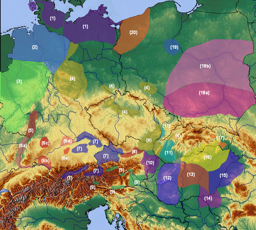 Distribution of central-european archaoelogical cultures and groups during phase BA1 (Bz A1, 2200-2000 BC) of the chronology system by Paul Reinecke. (1) Late eneolitic; (2) Beaker culture; (3) Riesenbecher; (4) Unetice culture; (5) Adlerberg culture/group; (6) Early bronze age of Nordalps: (6a) Oberrhein-Hochrhein gr., (6b) Singen gr., Neckar gr., Ries gr., Lech gr.; (7) Straubing culture/group; (8) Unterwölbling culture; (9) Early bronze age of South-eastalps; (10) Wieselburg culture; (11) Nitra culture; (12) Kisapostag culture; (13) Nagyrév culture; (14) Perjámos culture; (15) Ottomány culture; (16) Hatvan culture; (17) Košťany culture; (18) Mierzanowice culture: (18a) southern zone, (18b) northern zone; (19) Dobre group; (20) Plonia (Buchholz) group.